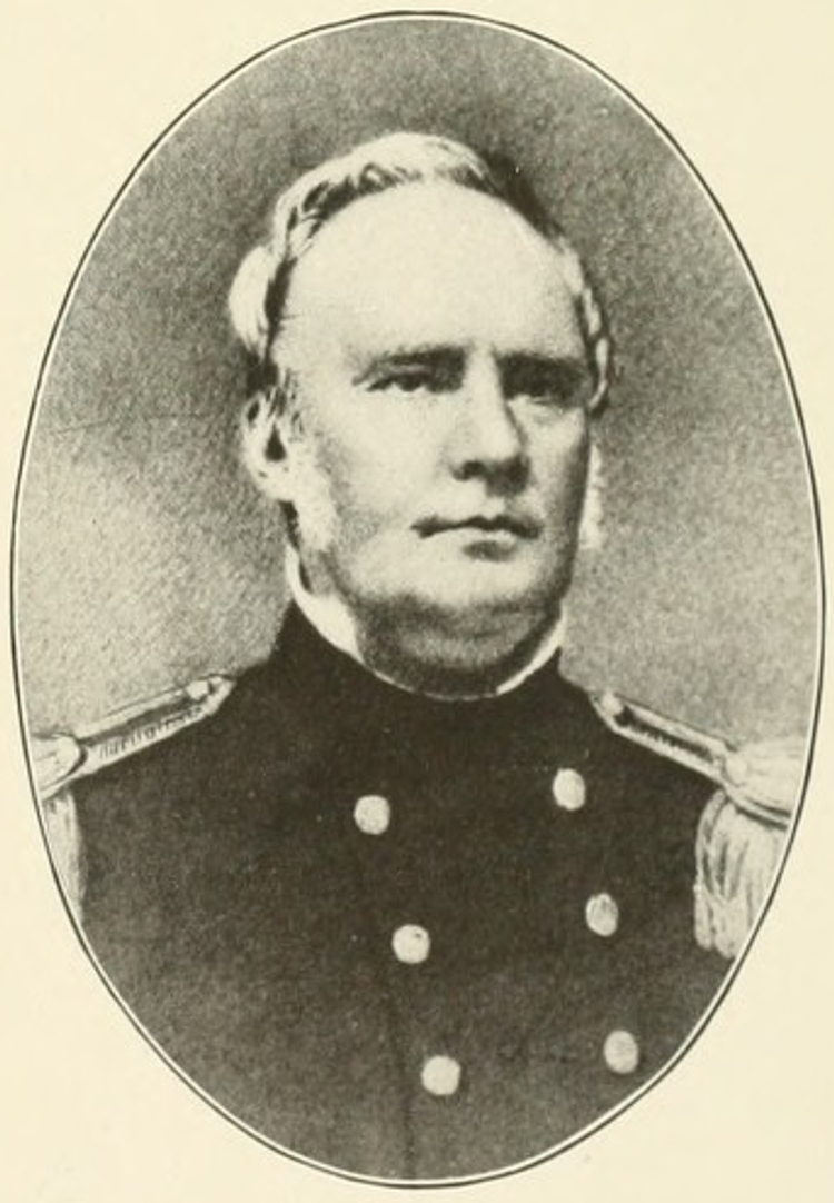 Confederate General Sterling Price (photographed in his U.S. uniform before the war)